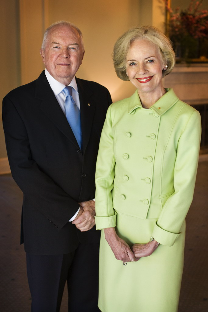 Australia's 25th Governor-General Her Excellency Ms Quentin Bryce AC and His Excellency Mr Michael Bryce AM AE.